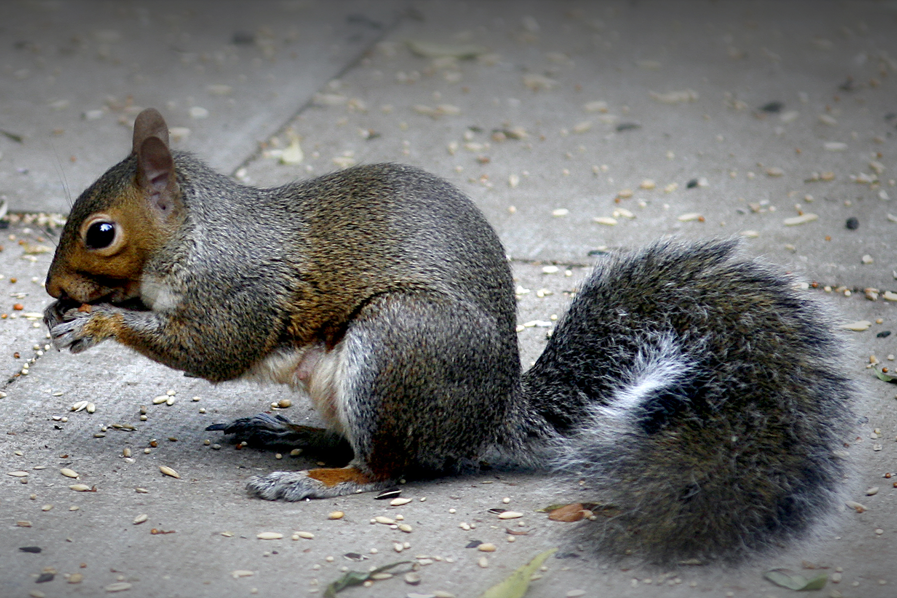 Grey Squirrel in Milton Country Park, Cambridgeshire